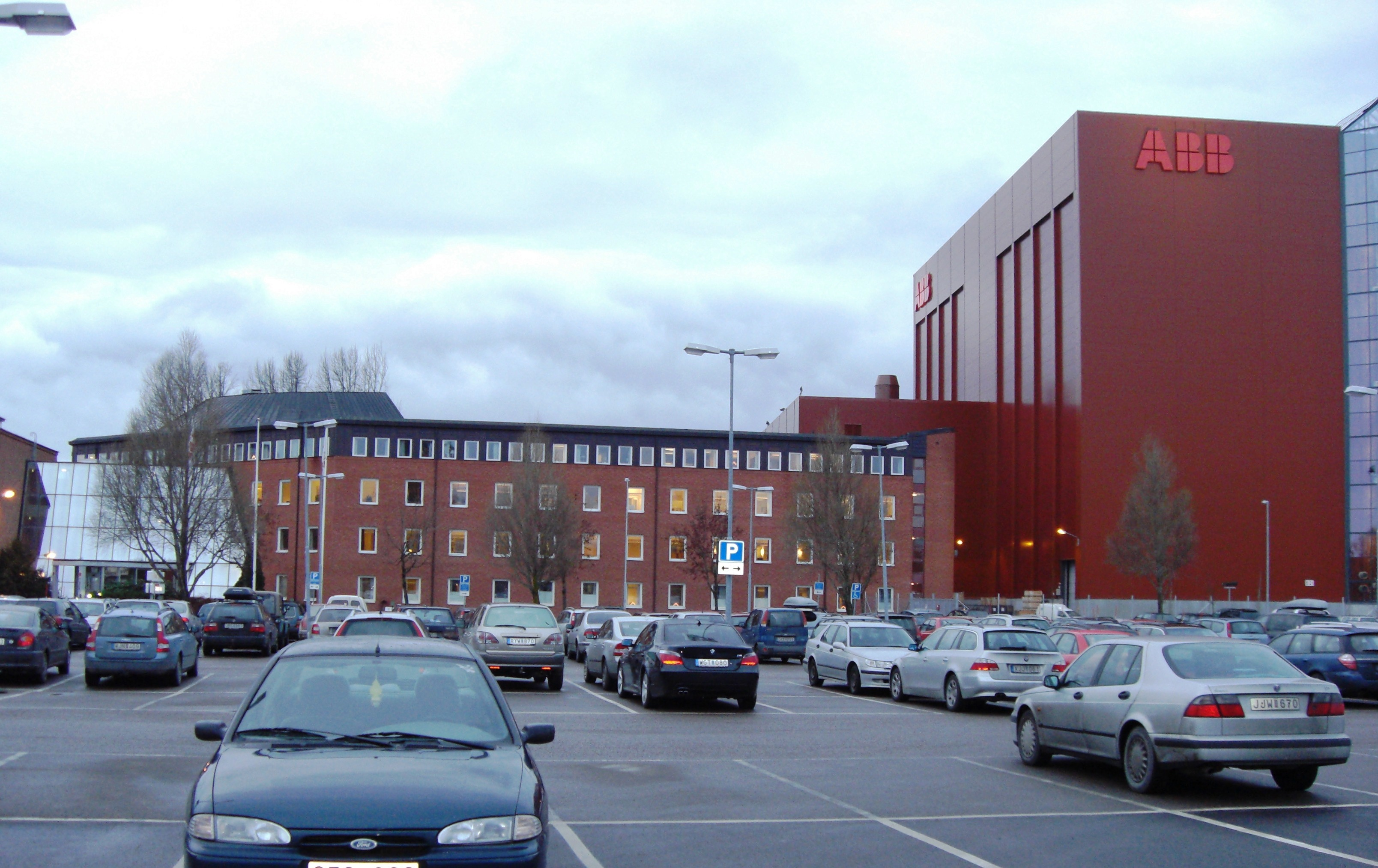 abb